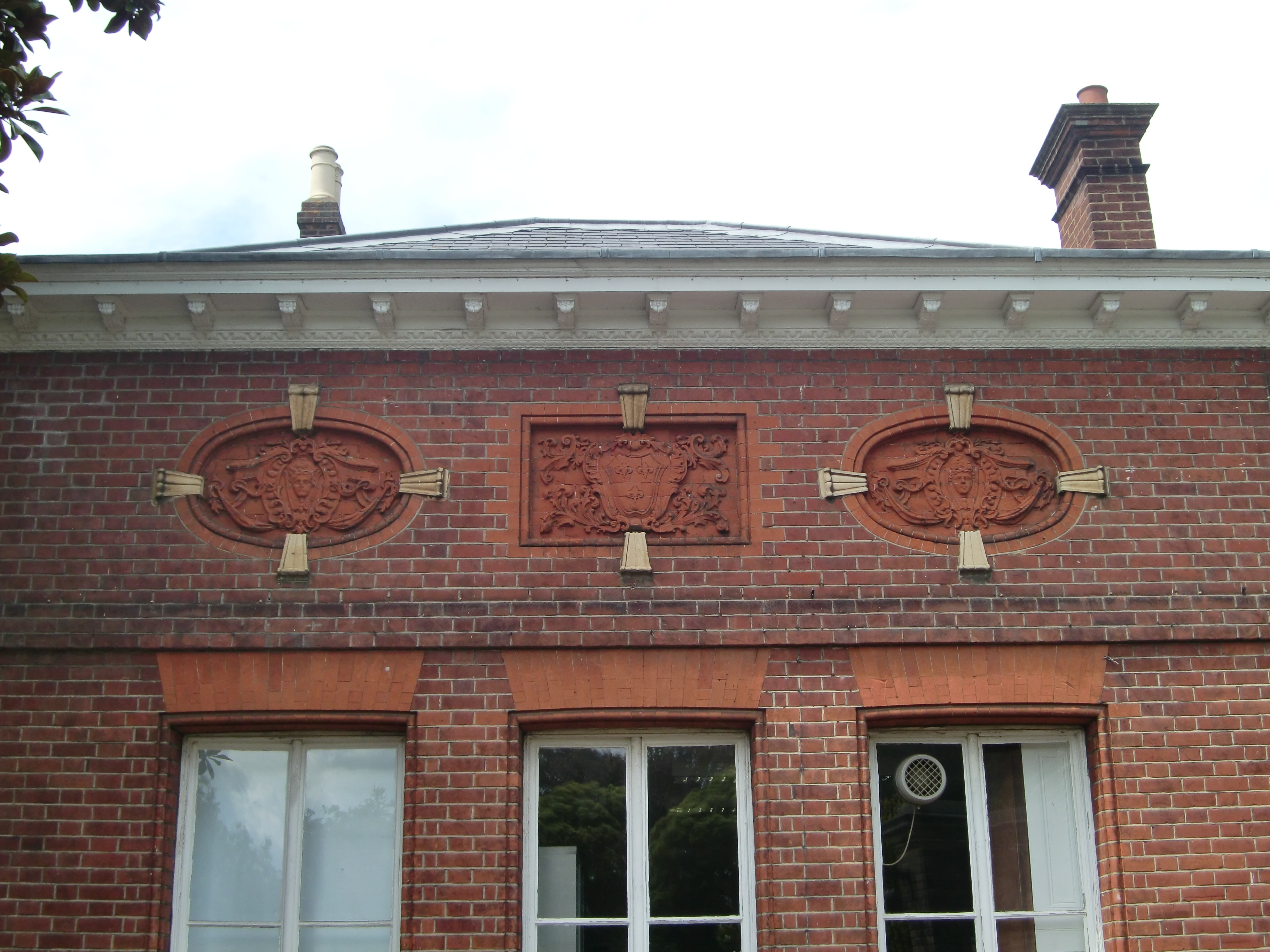 detail on wall above loggia - York house Twickenham. Fleur de Lis marks an extension by the Duke of Orléans